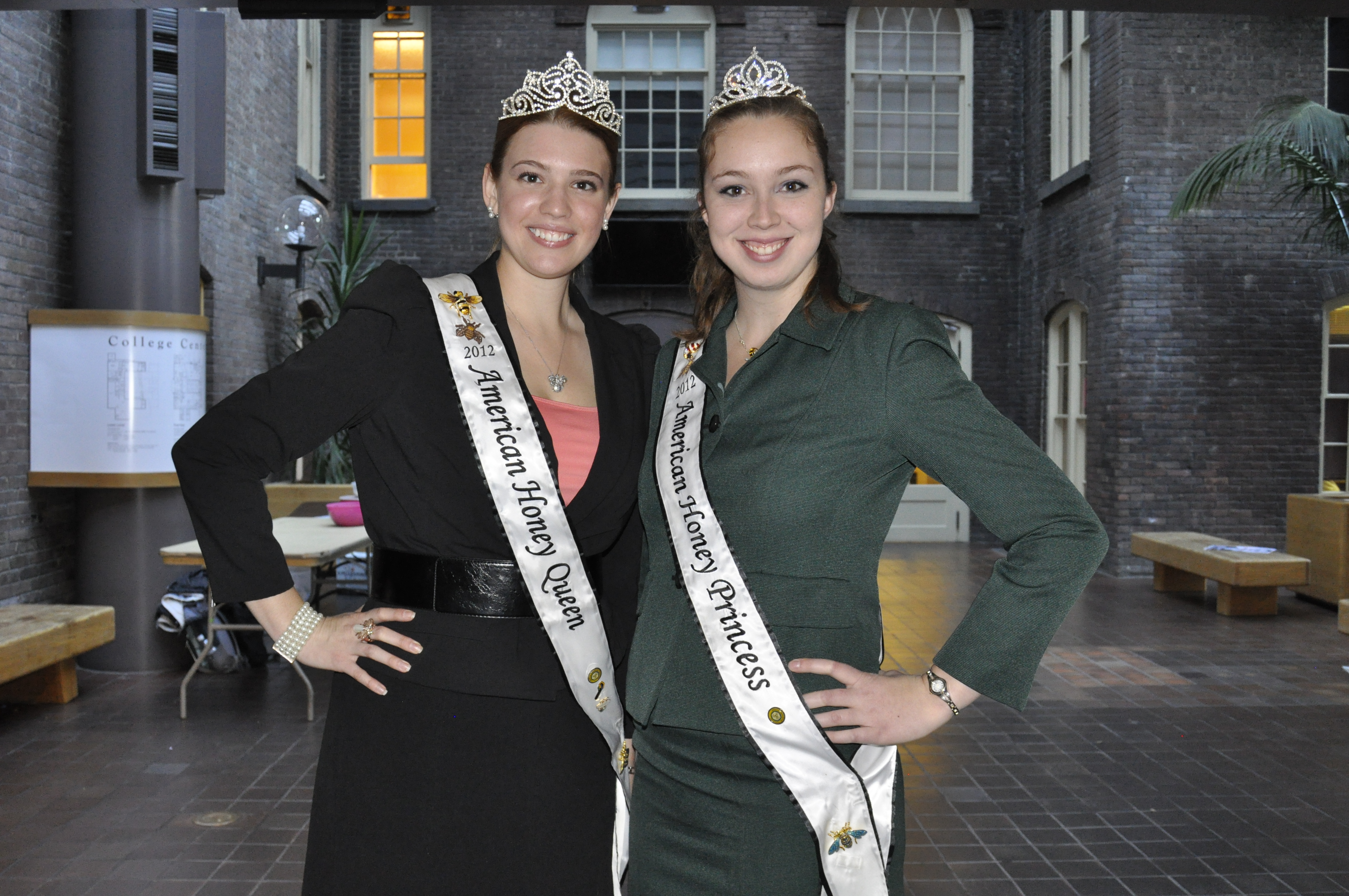 2012 American Honey Queen Alyssa Fine, from Pennsylvannia (left) and 2012 American Honey Princess Danielle Dale, from Wisconsin (right).